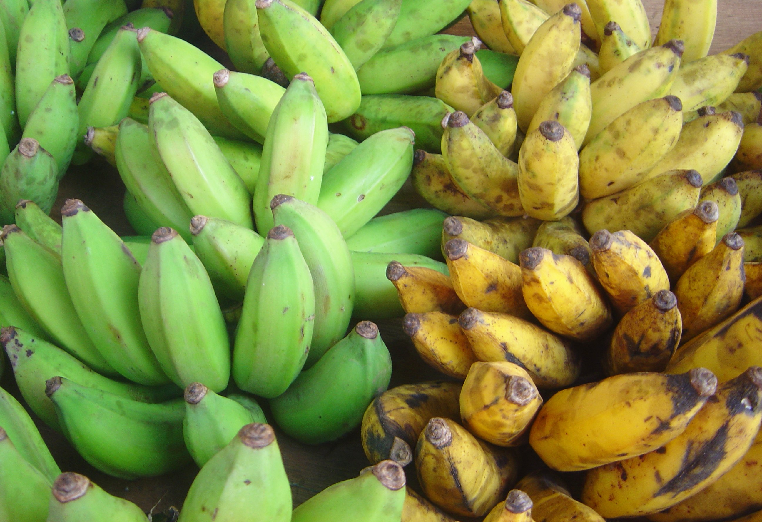 Green and yellow bananas. These are from a cultivar of small, flavorful bananas favoured on Réunion Island. Petit marché, Saint-Denis, Réunion, France July 29, 2005